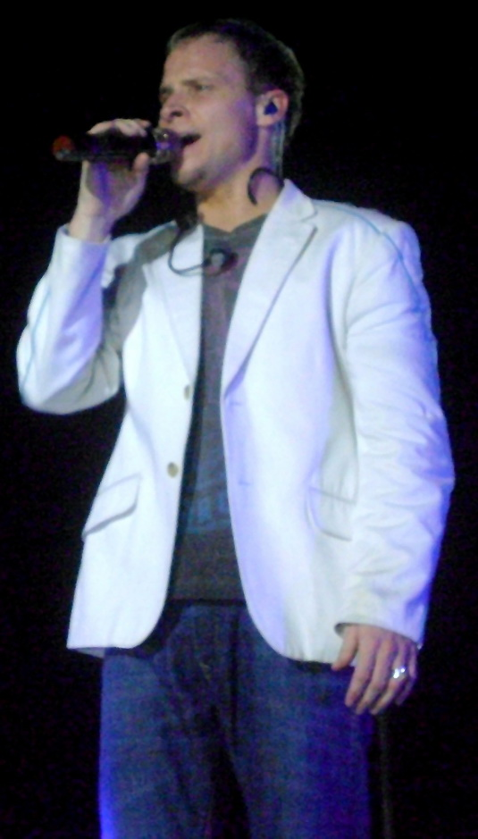 Backstreet Boys Live @ Arena Movistar Santiago, Chile. 2009-03-01